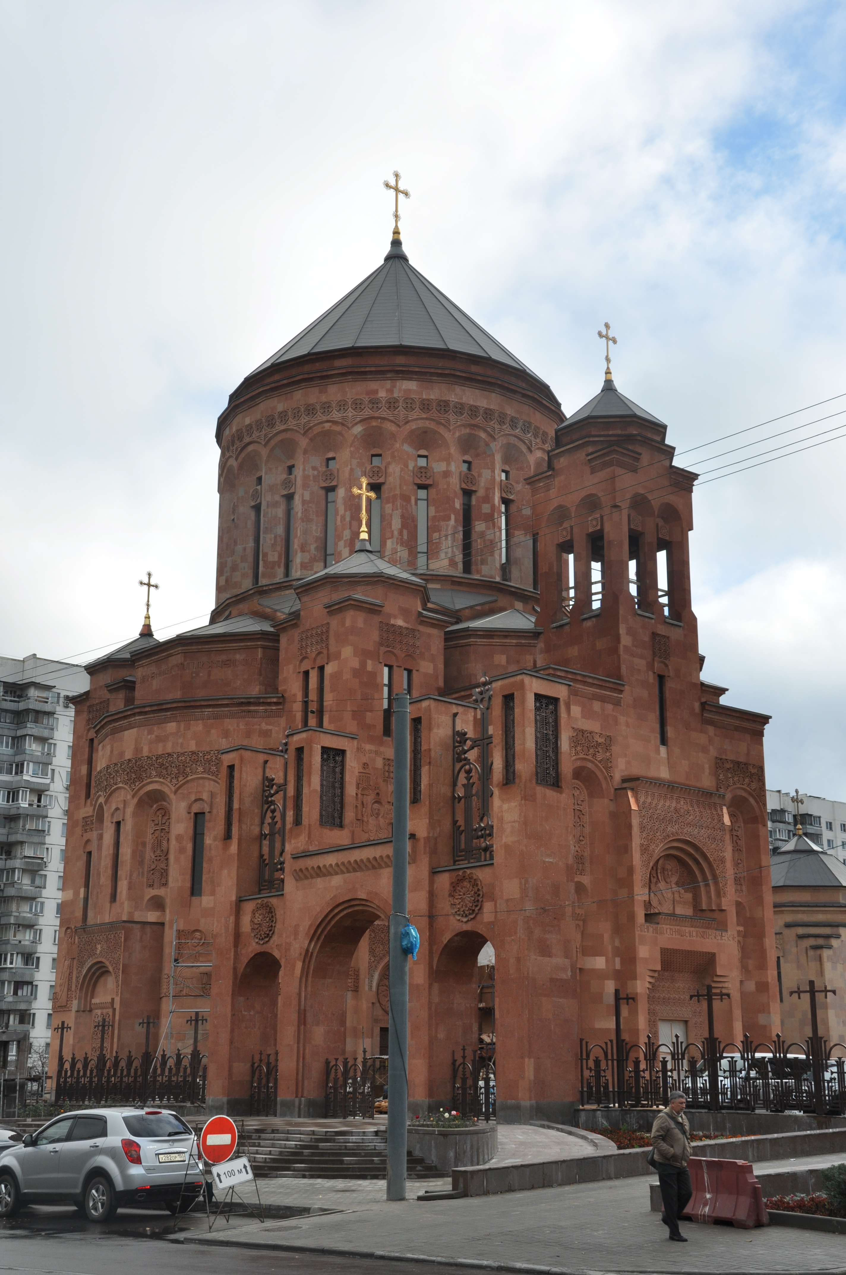 Holy Transfiguration Cathedral of Armenian Apostolic church in Moscow.